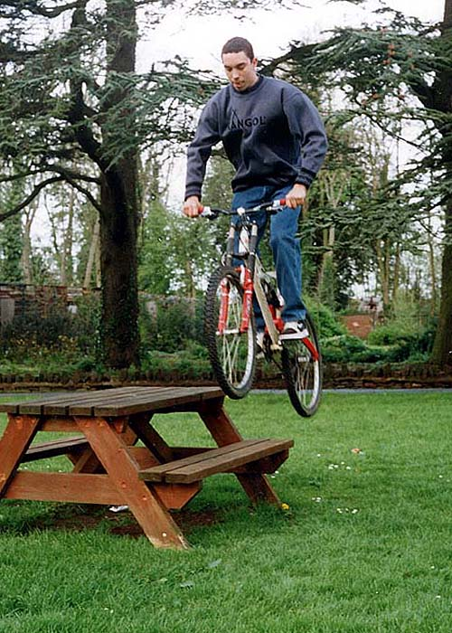 My son John bunnyhopping his mountain bike onto a park bench.